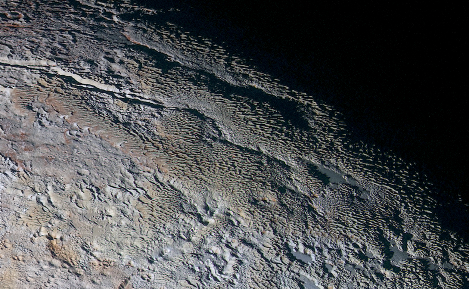 In this extended color image of Pluto taken by NASA's New Horizons spacecraft, rounded and bizarrely textured mountains, informally named the Tartarus Dorsa, rise up along Pluto's day-night terminator and show intricate but puzzling patterns of blue-gray ridges and reddish material in between. This view, roughly 330 miles (530 kilometers) across, combines blue, red and infrared images taken by the Ralph/Multispectral Visual Imaging Camera (MVIC) on July 14, 2015, and resolves details and colors on scales as small as 0.8 miles (1.3 kilometers).